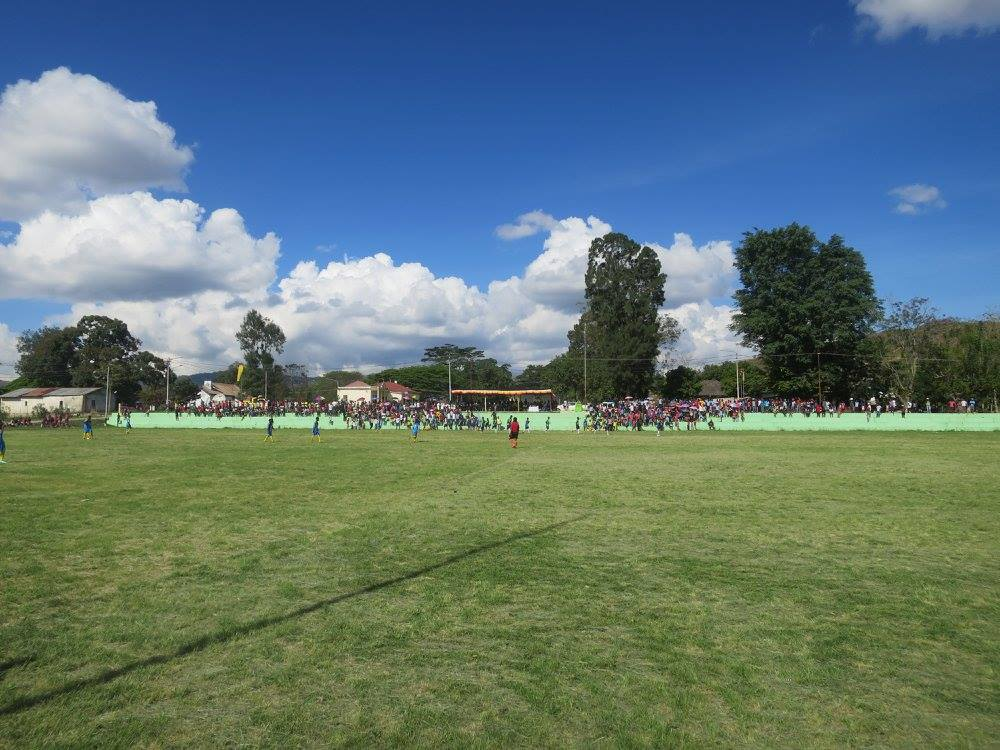 Sport field of Aileu